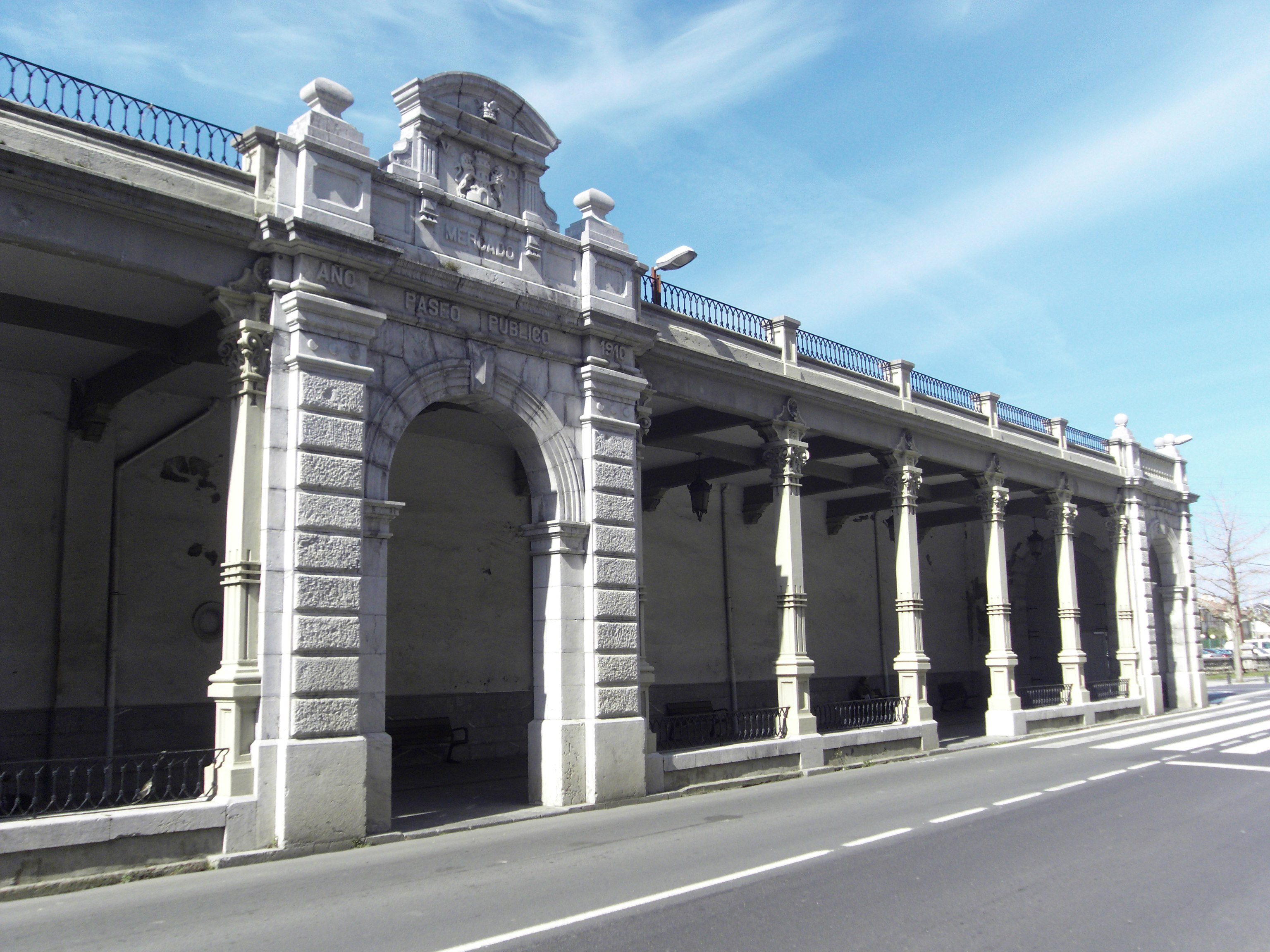 Municipal Market front façade, Deba (Guipuscoa, Basque Country)